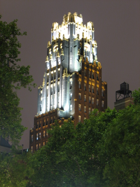 The American Radiator Building at night